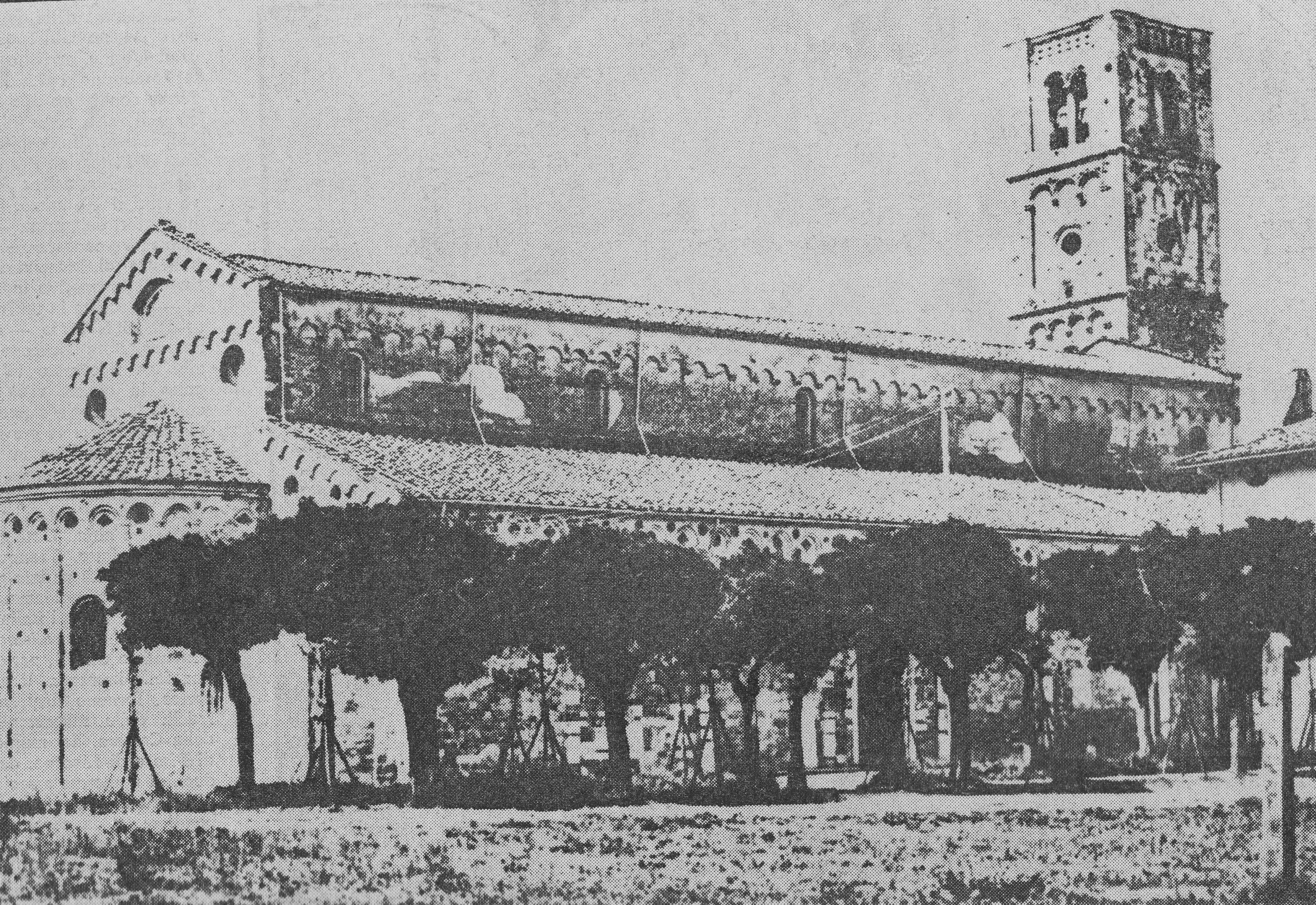 Church and bell tower in San Piero a Grado, Pisa, Tuscany, Italy.